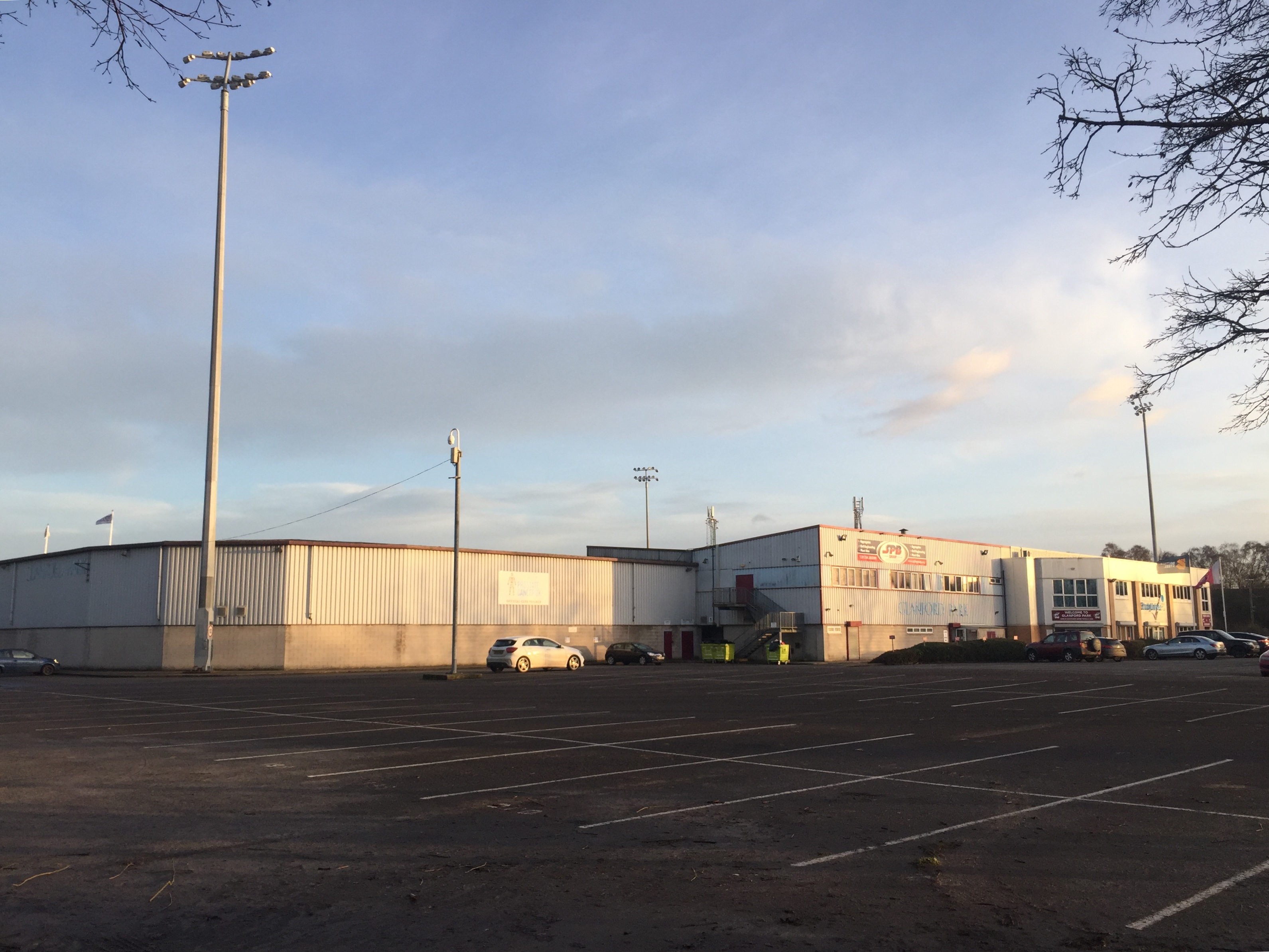 The rear of the West stand and North-West corner of Glanford Park, Scunthorpe. The club offices can be seen protruding from the rear of the stand.